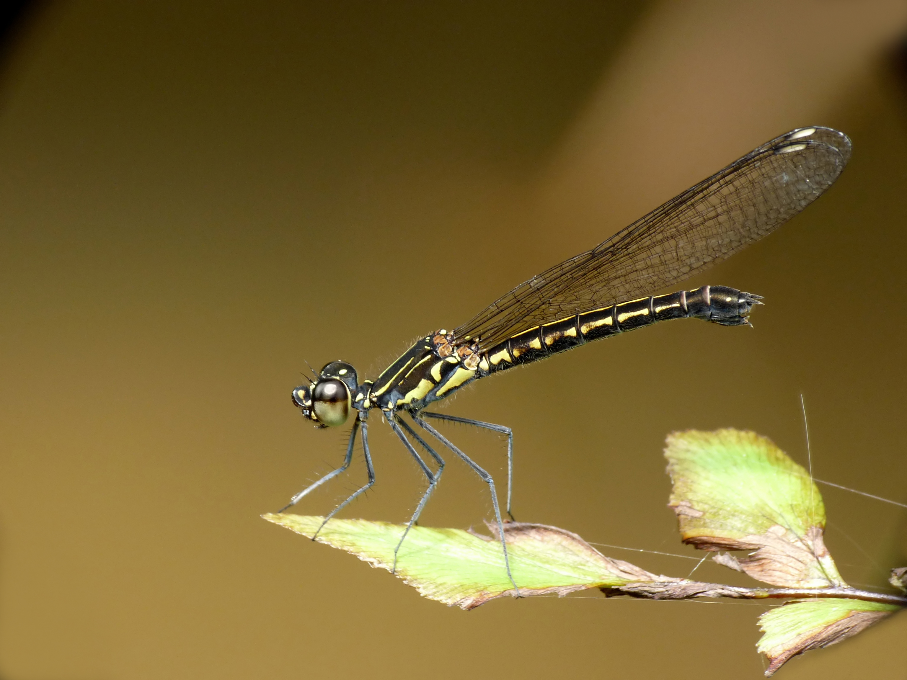 River Heliodor (Libellago lineata) Female Libellago lineata, River Heliodor, Stream Heliodor, Yellow-lined Gems, is a small black and yellow damselfly with black tipped transparent wing; confined to hill streams and rivers of forested landscapes. Frequently sits in emergent water plants and overhanging bushes. Their preferred home is along the banks of rivers. The fully adult male has black and yellow markings along the thorax and abdomen. It has more black when fully matured. It also has white markings on the legs. The biggest difference though, is that it develops black marks on the tops of the wings, that make it look really distinctive. A young male is similar to the adult, but doesn't yet have the black markings on the wings and there is less black on the abdomen. The female is similar to the sub-adult male, except the abdomen is much more robust. and the markings on the abdomen are slightly different. Eyes of female are brown above grey below. Thorax is similar to male and markings more extensive and dull. Legs are yellow, femora lined extensively with brown. Wings are transparent with amber tint. Wing spots are creamy white; present in all wings. Abdomen is yellow, with black markings. The first segment has a large square spot above. The segments 2-8 have a broad black patch above. This is bisected by a narrow yellow line, which extend to the 9th segment and the last segment is black. Female lays eggs on partially submerged decaying wood. Taken at Kadavoor, Kerala, India. Note: This is Libellago indica Fraser, 1928; now considered as a separate species.